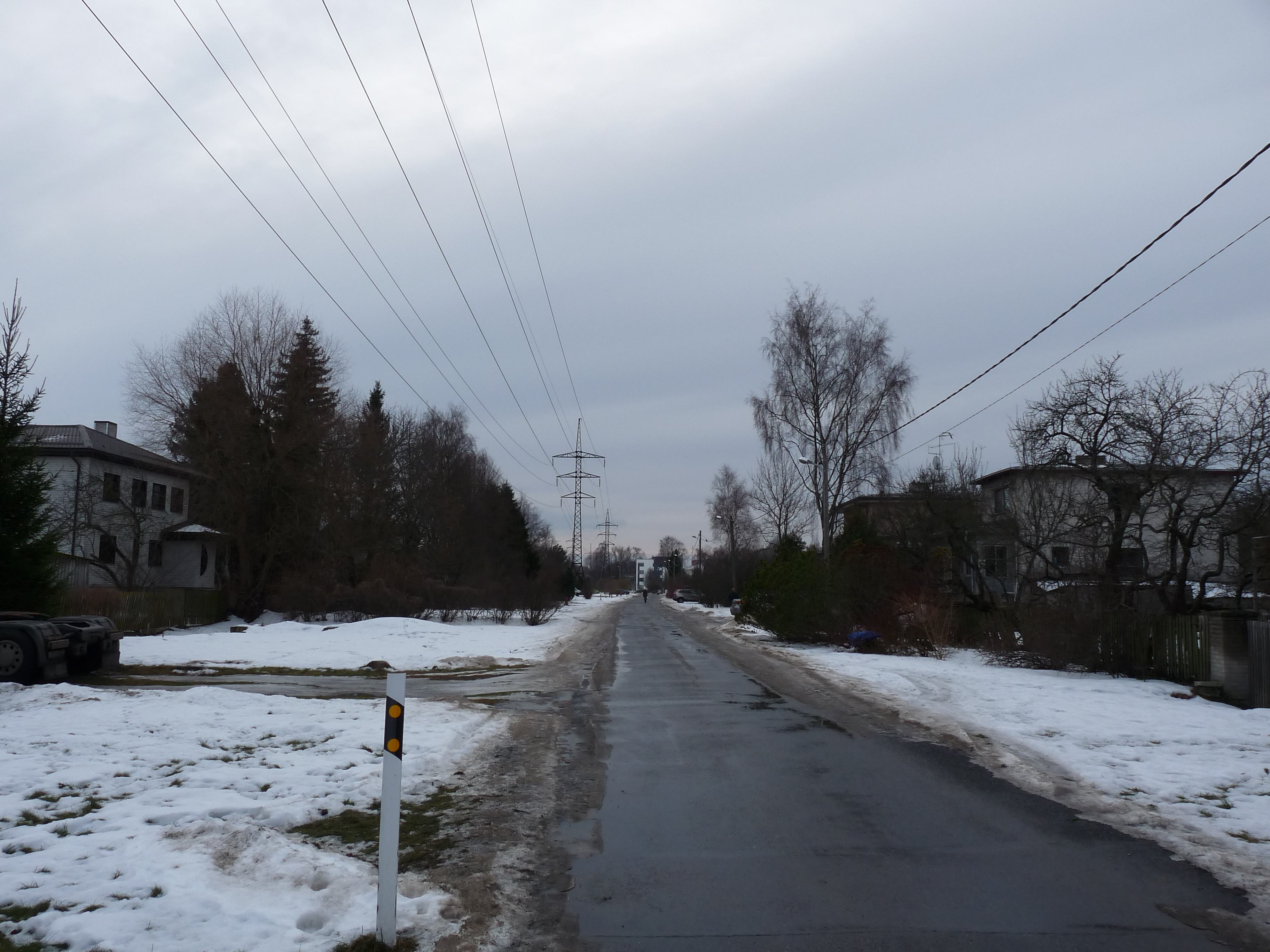 Vuti street in Tallinn, Estonia